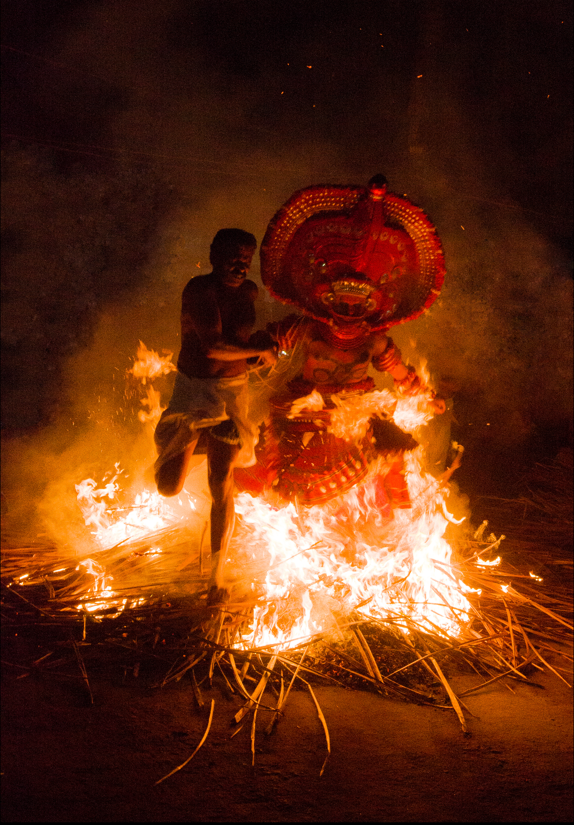 Kandanar Kelan theyyam entering the fire .This ritual performed in Palakkeel house , near Kannur in Kerala,India.